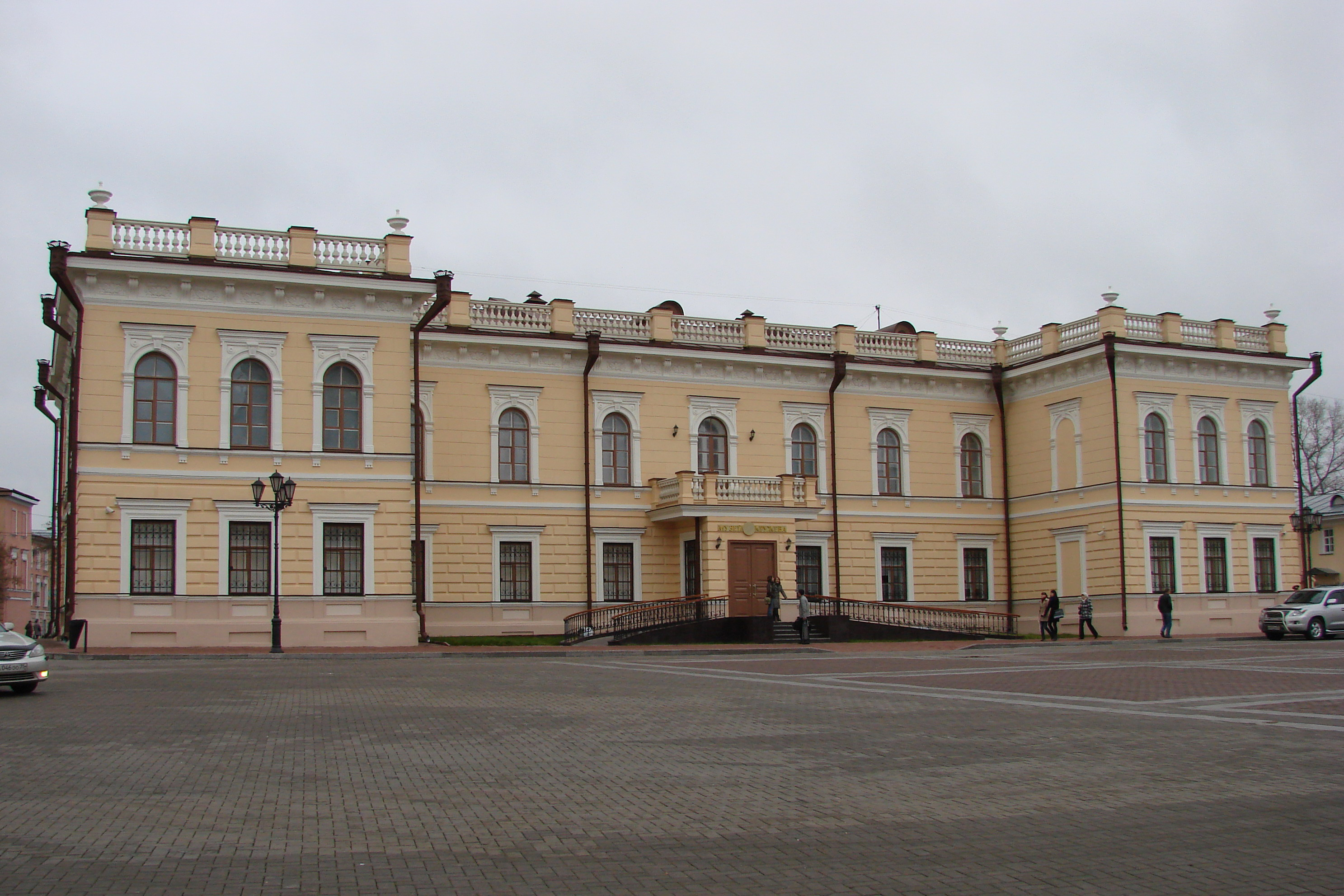 Russia, Vologda, Museum of lace